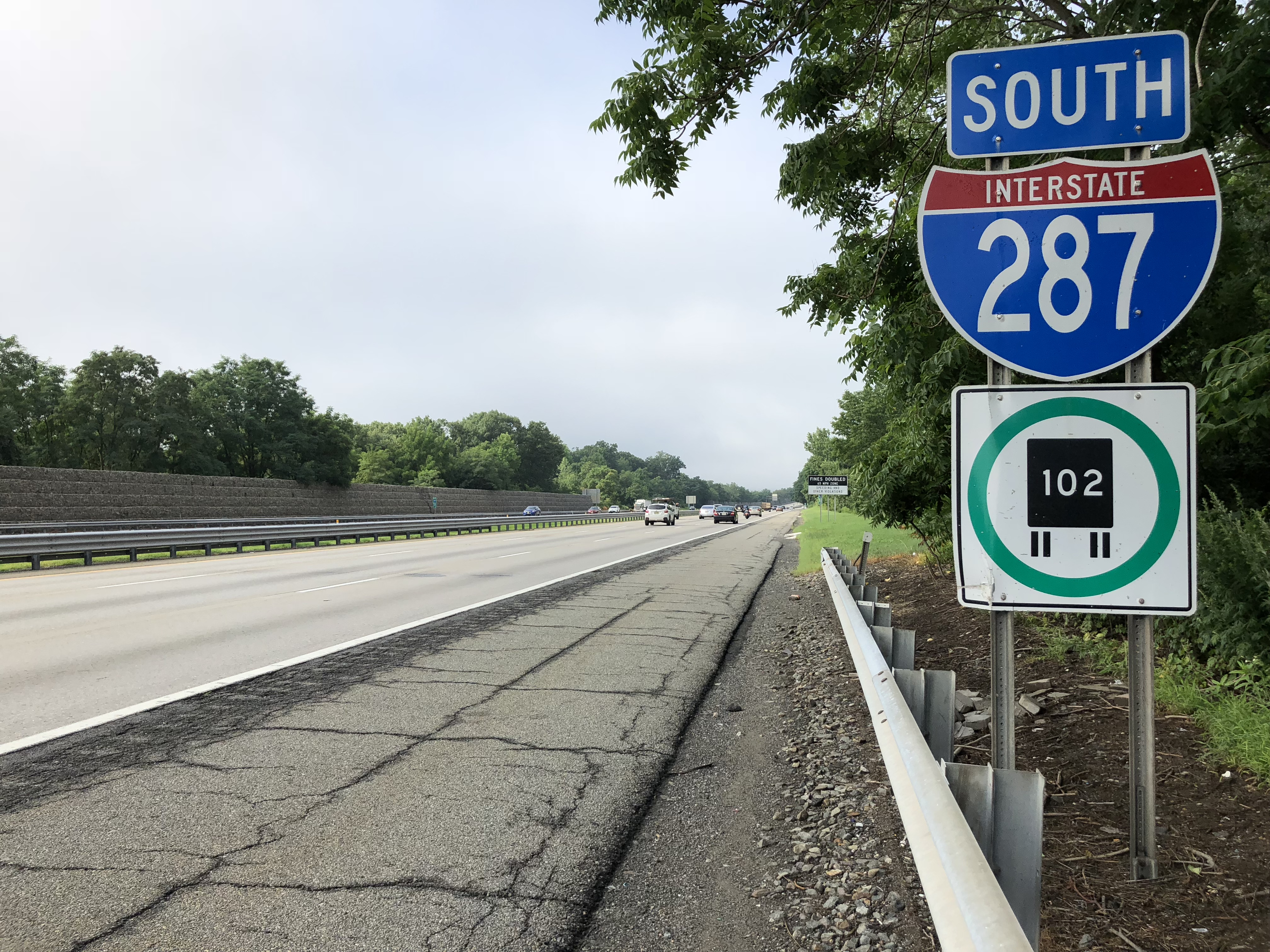 View south along Interstate 287 just south of Exit 52 in Pequannock Township, Morris County, New Jersey